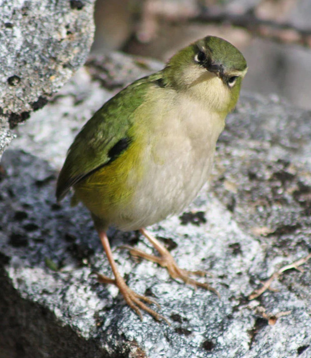 New Zealand Rock wren